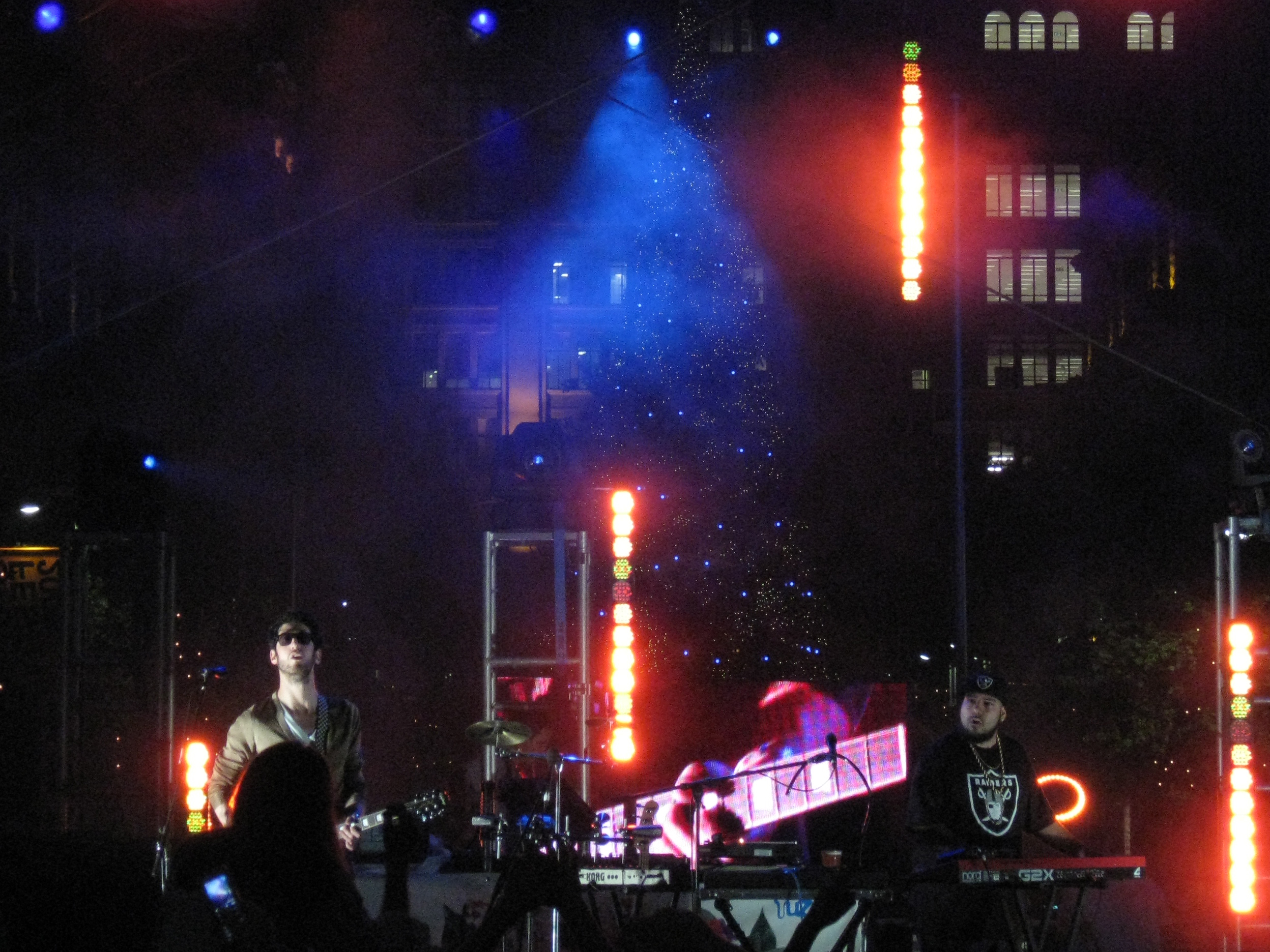 Chromeo in concert